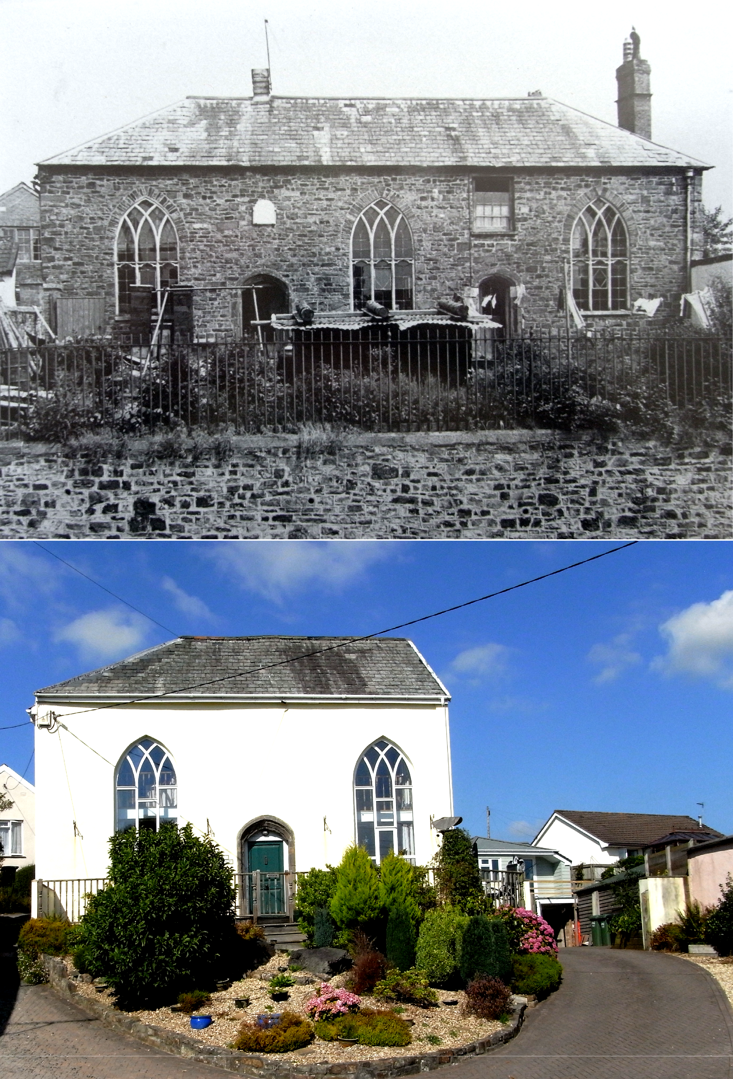 Hugh Squier's School, East Street, South Molton, Devon, founded and built 1683, merged and moved to new premises 1877. View from south. Eastern 1/3 demolished circa 1965. Founder's inscribed tablet above western entrance door now lost. Photographs: top circa 1960, bottom 2015. Converted to a private dwelling, in 2015 called "Tamarisk", postal address: 51 East Street, South Molton